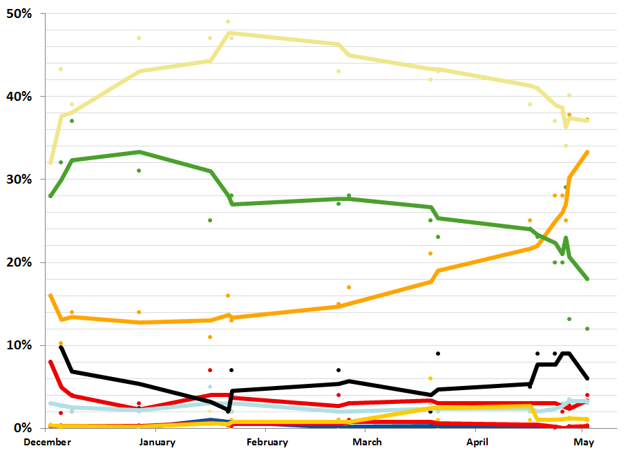 Polling for 2010 Philippine vice presidential election, 2010 with a 3-period moving average.